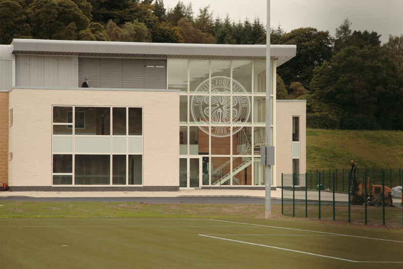 Lennoxtown Training Centre: Close up of entrance lobby.